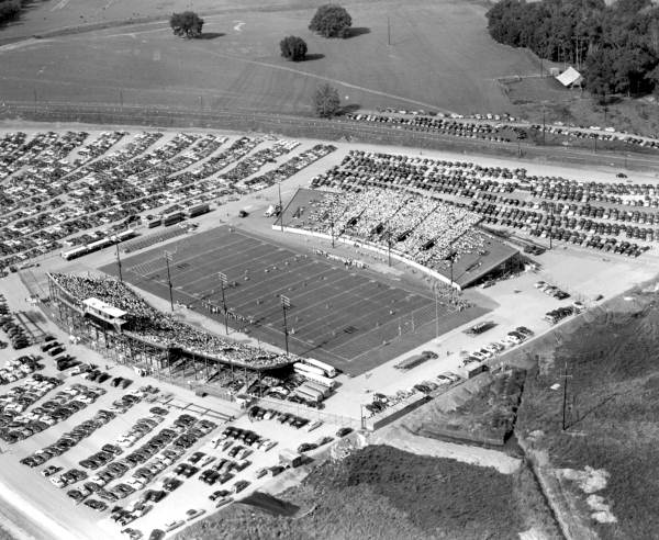 Local call number: C014203 Title: Dedication game at Doak Campbell Stadium: Tallahassee, Florida Date: October 7, 1950 General note: Aerial view of the dedication game during the inaugural season for FSU at Doak Campbell Stadium. FSU beat the Randolph-Macon College Yellowjackets 40-7. Physical descrip: 1 photoprint - b&w - 4 x 5 in. Series Title: Department of Commerce Collection Repository: State Library and Archives of Florida, 500 S. Bronough St., Tallahassee, FL 32399-0250 USA. Contact: 850.245.6700. Persistent URL: Visit Florida Memory to see more images of Doak Campbell Stadium on the campus of Florida State University in Tallahassee. Visit Florida Memory to learn more about the history of college football in Florida.